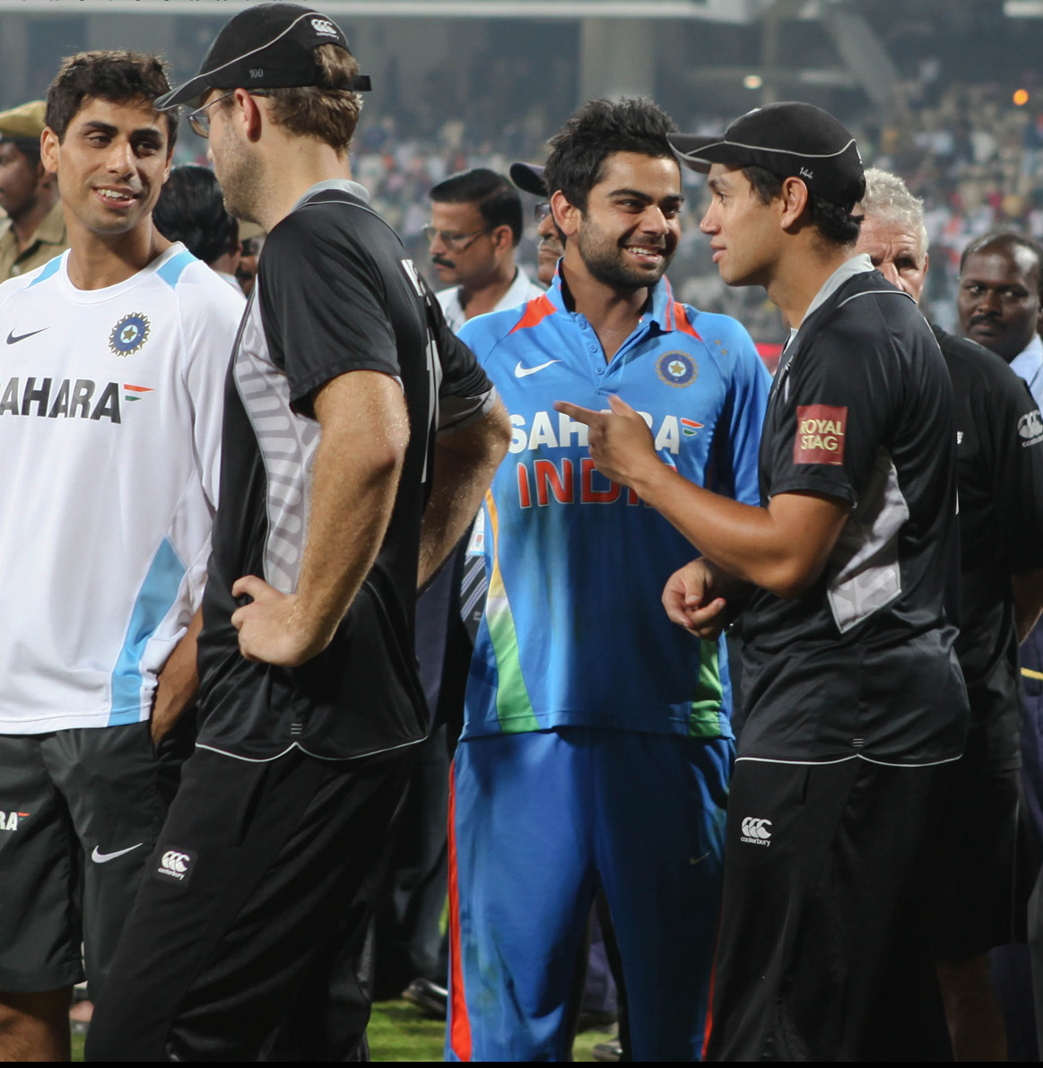 Players chatting after the game, India Vs New zealand One day International, 10 December 2010